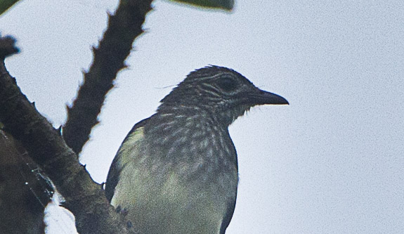 A Swamp Greenbul; other names: Swamp Palm Bulbul, White-tailed Greenbul; (Thescelocichla leucopleura) in the Kakum National Park (Ghana)